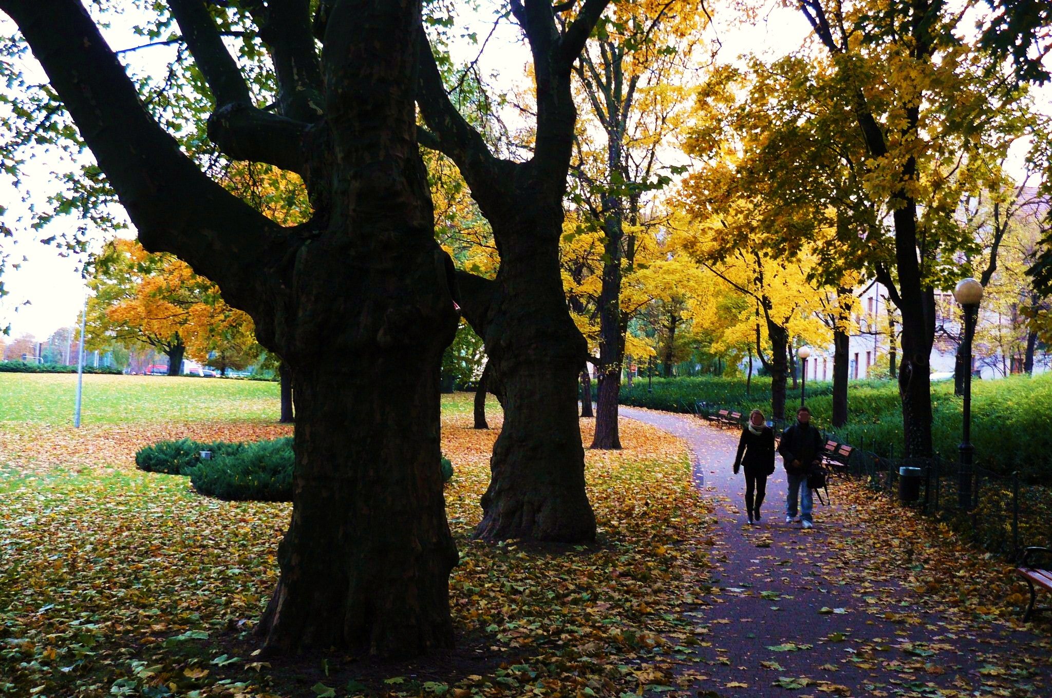 Adam Mickiewicz Park, Poznan.